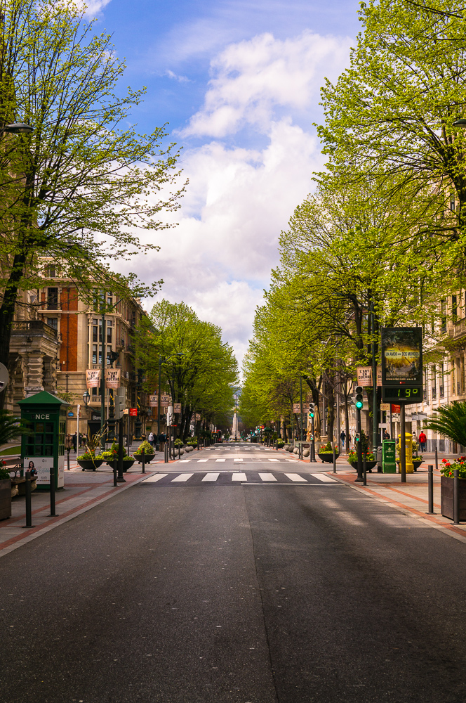 Street with the Jesus statue in the background (Bilbao, Spain)